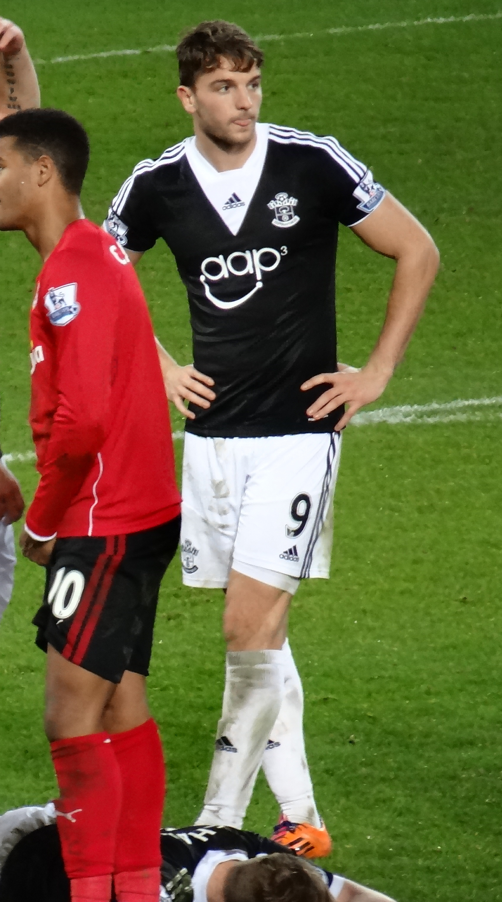 English football player of Southampton Jay Rodriguez.